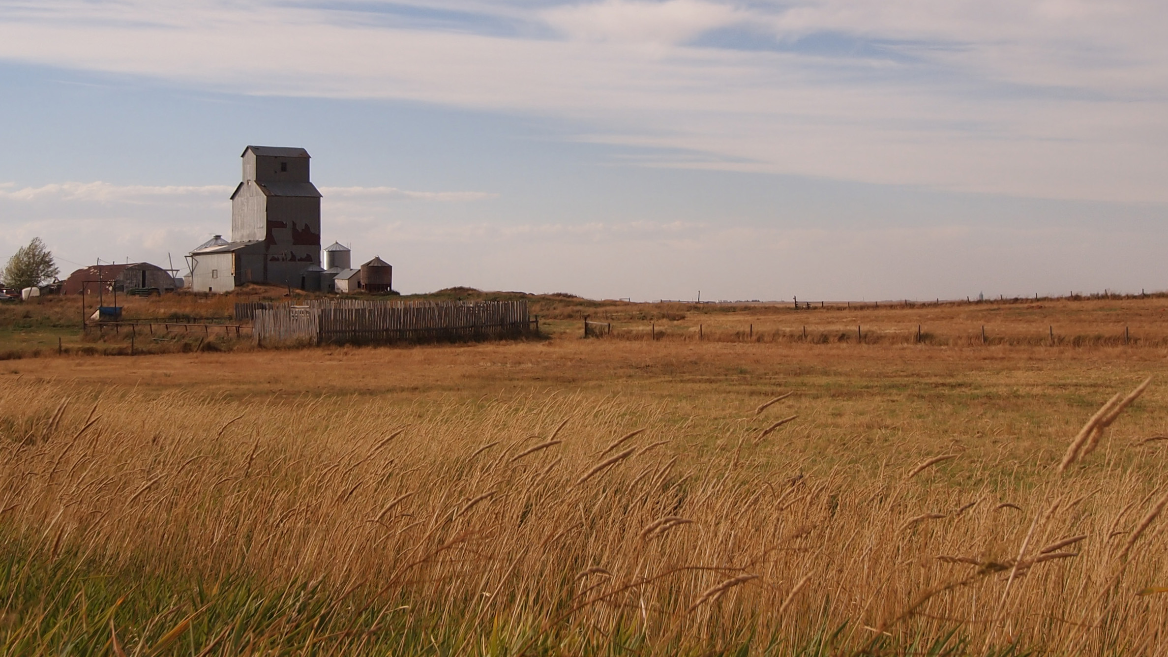 Gartly no longer really exist, this is just East of where it used to be. The wheat has a nice glow to it in the Fall.